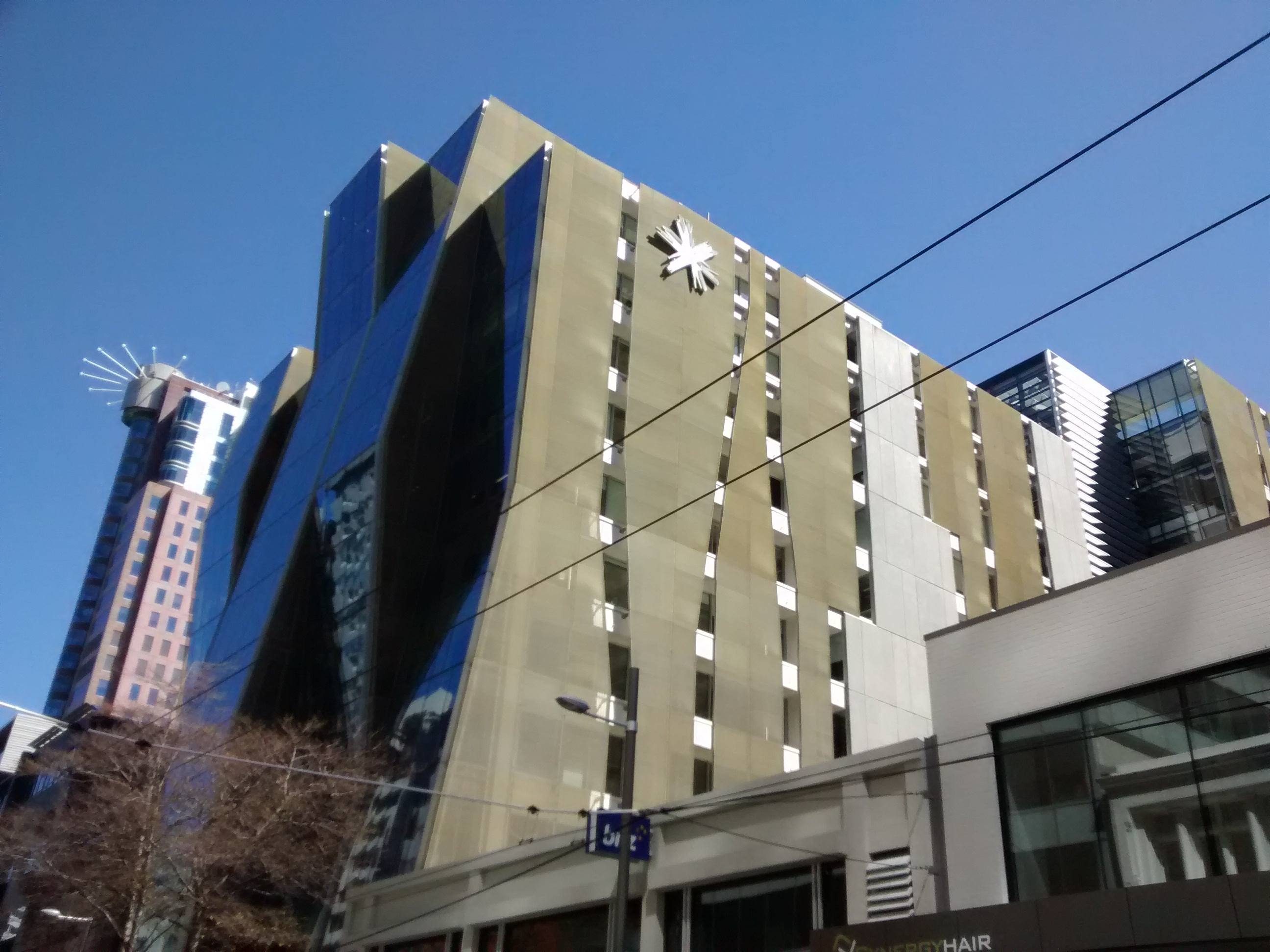 The Spark building on Willis Street, Wellington.